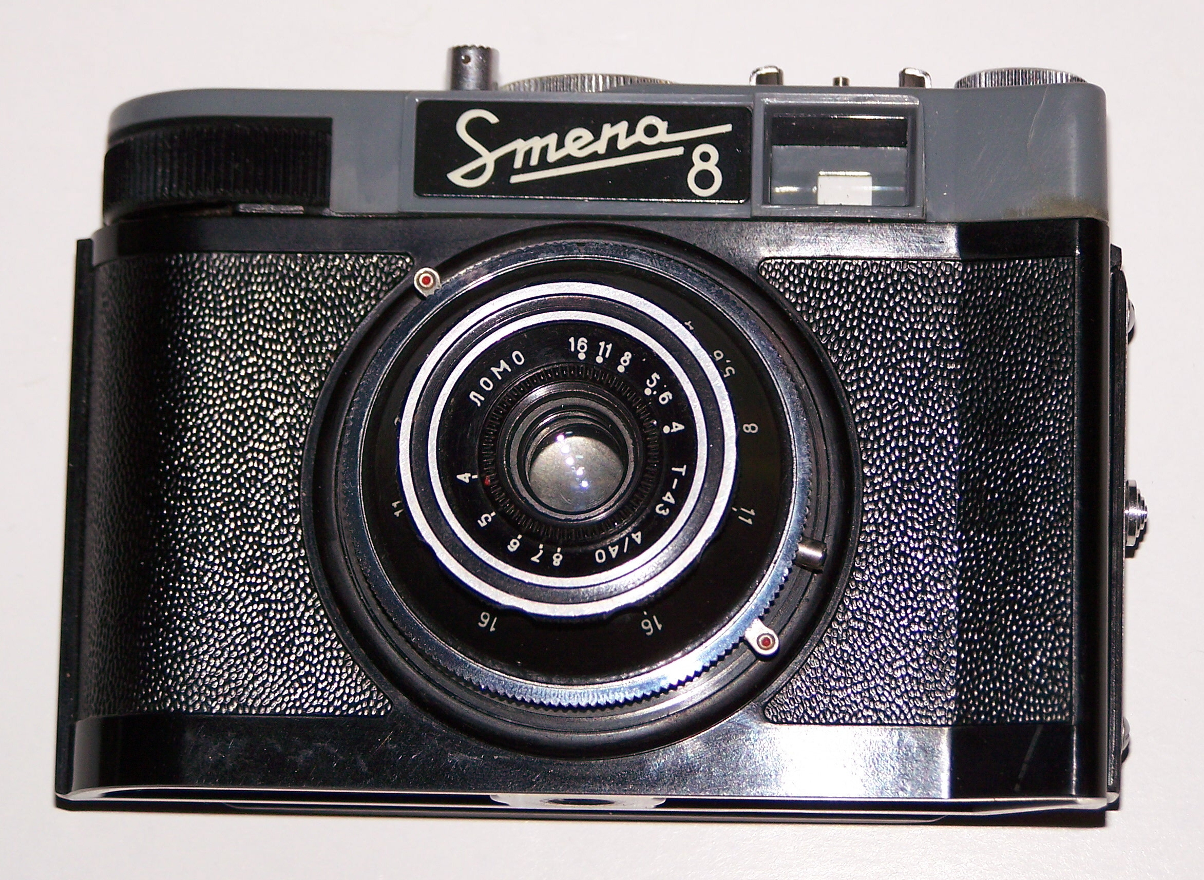 Please see filename above